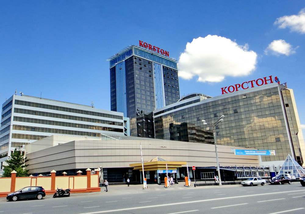 Korston Hotel&Mall towers in Kazan, Tatarstan, Russia